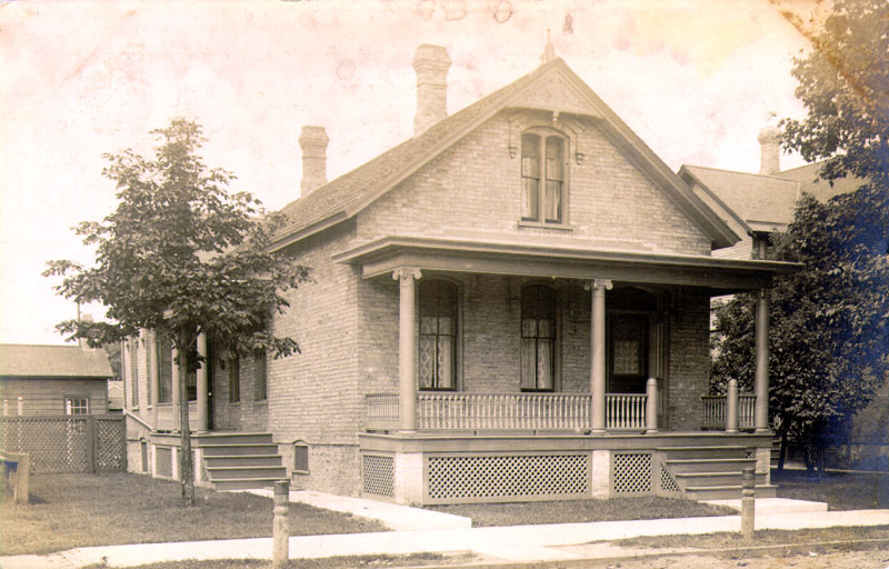 The postcard is postmarked August 9, 1910, 7:30AM, and is written in German. It is addressed to Mr. Ric. Edelmann, 195 Jefferson Ave., Oshkosh, Wis. Ruby writes: I came across your photo of an old cream brick cottage. I was intrigued because there’s so many like that on the North side and I wanted to figure out which one it is. I’ve been looking and looking, in person and on Google Street View. I think the address is 1524 N Main. The front porch is gone, there’s a window where the front door was, and it looks like one of the chimneys is gone. But the house next door matches up, and the St Joseph’s church steeple behind it seems to match.